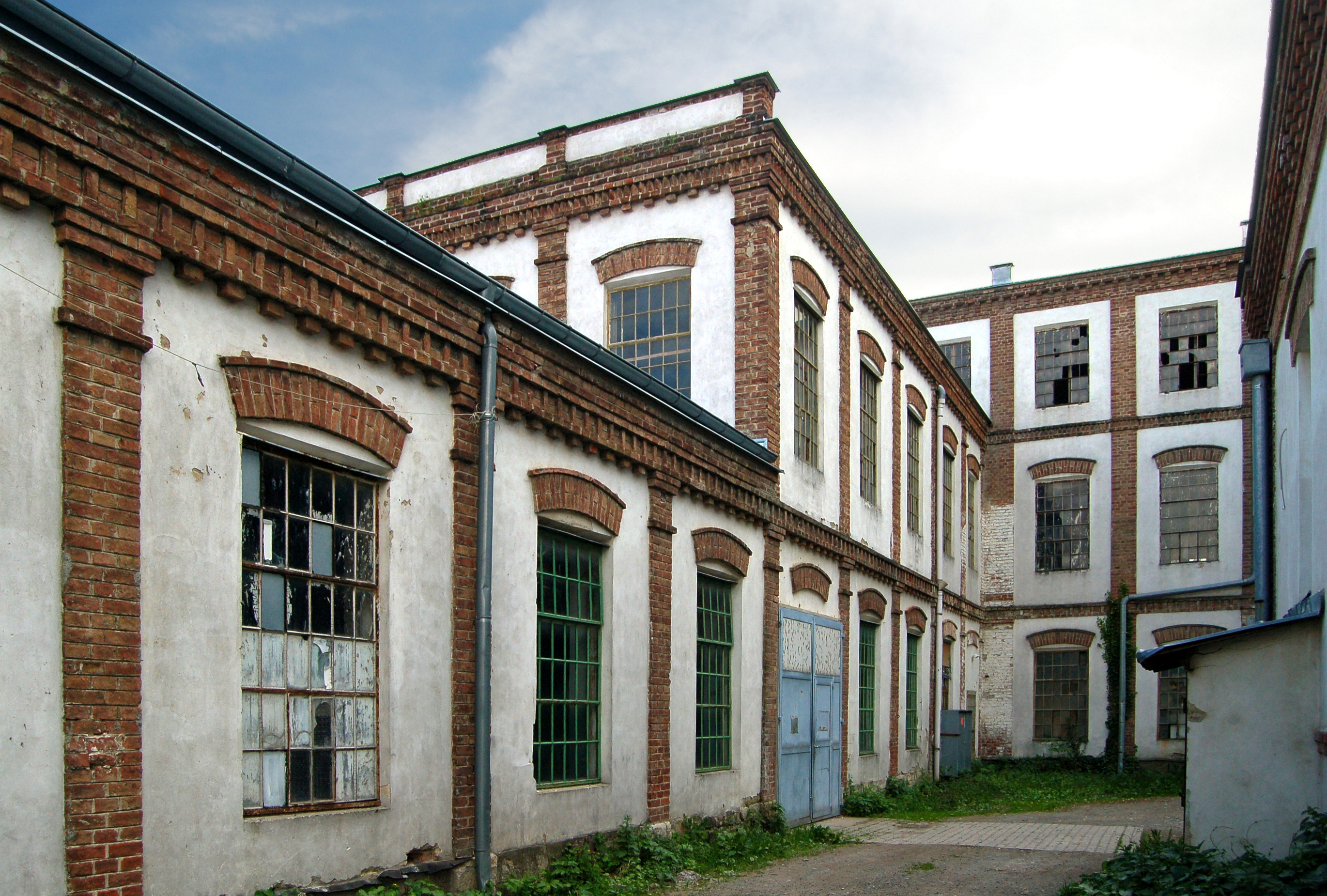 The former cotton mill in Oberwaltersdorf, Lower Austria.